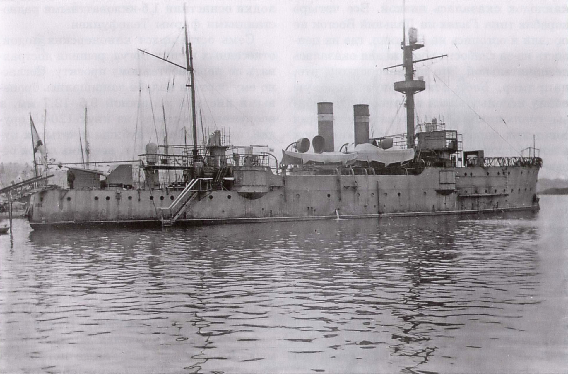 Imperial Russian gunboat Bobr (II). Later German Biber, Estonian Lembit.